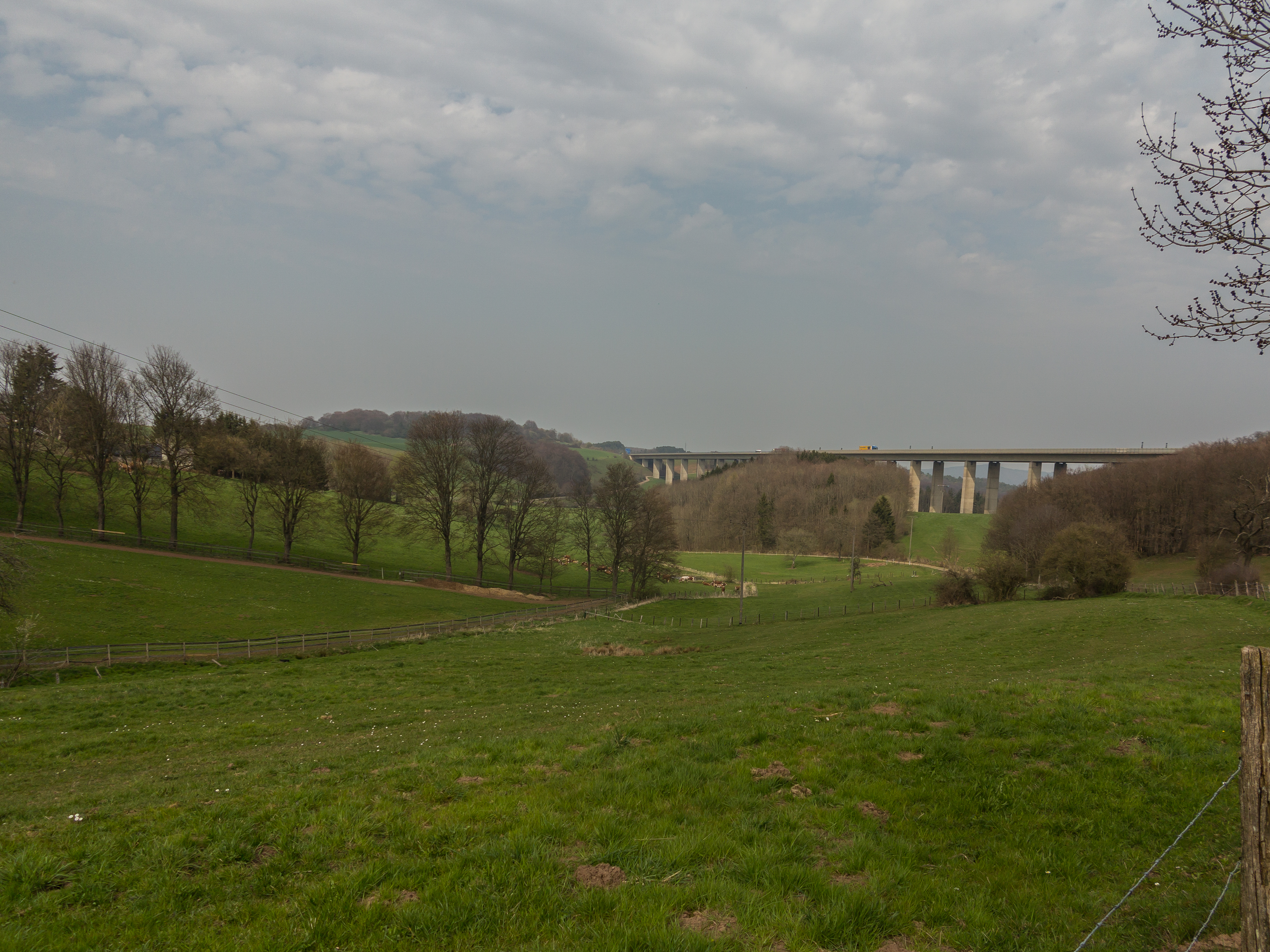 between Zingsheim and Pesch, fly over highway E2